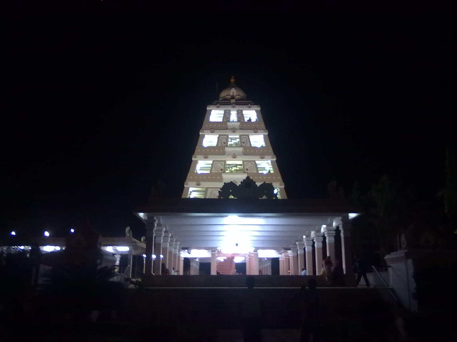 This is Rajarajan Manimandapam in Thanjavur city.